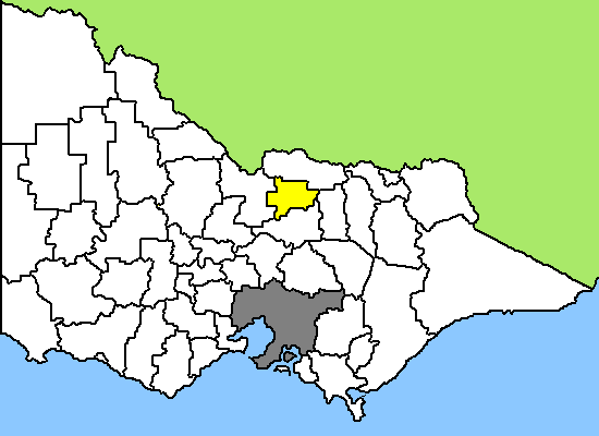 Map of Victoria/Australia, LGA of the City of Greater Shepparton highlighted